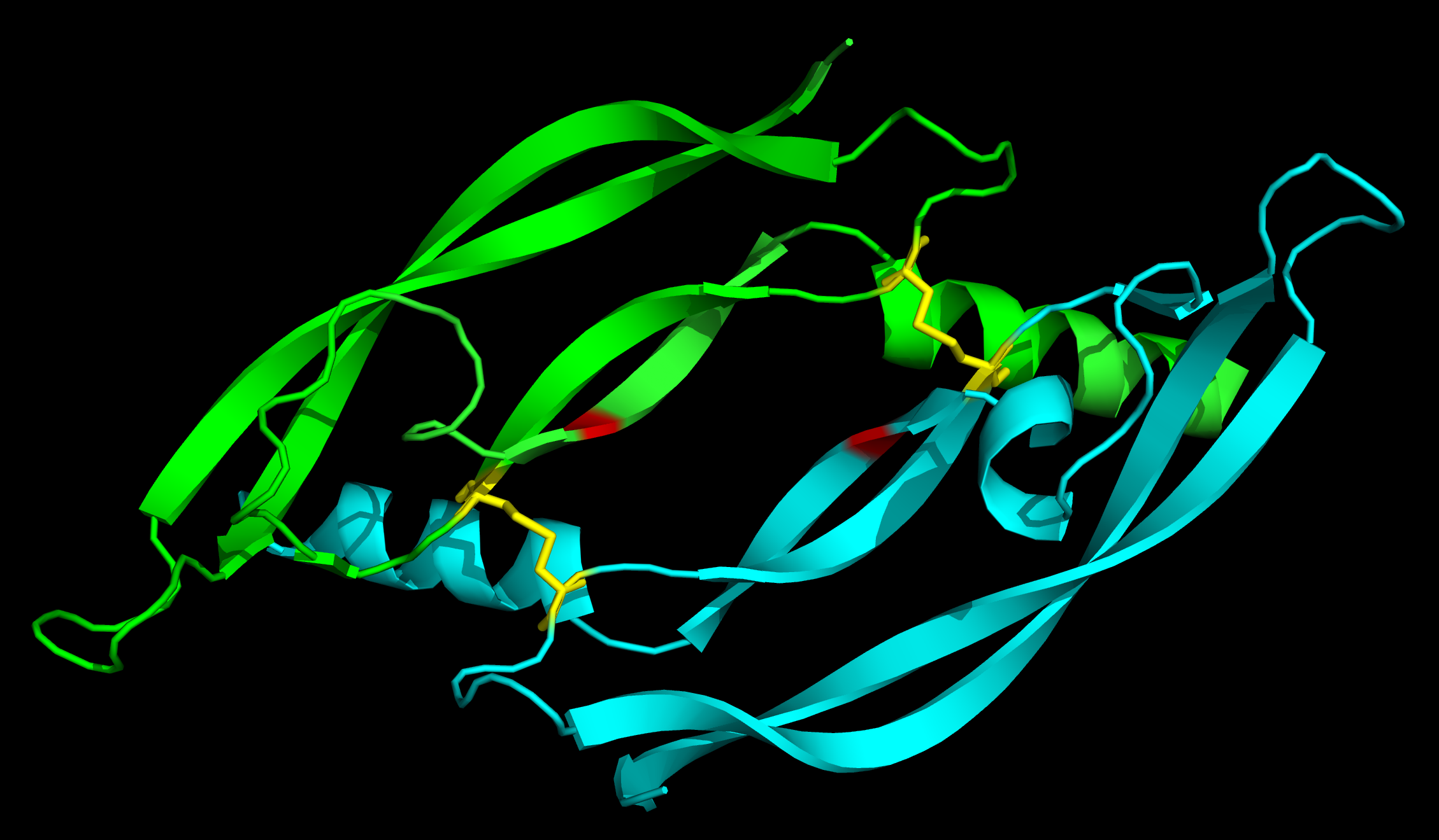 Pymol rendering of VEGF-C based on 2X1W